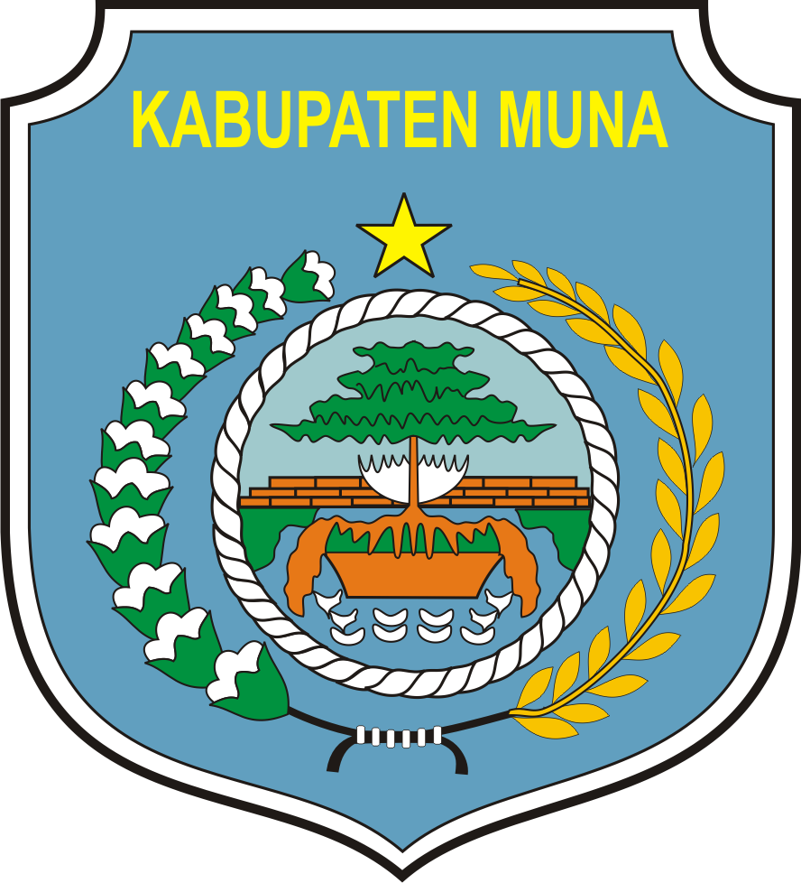 Former logo of Muna Regency